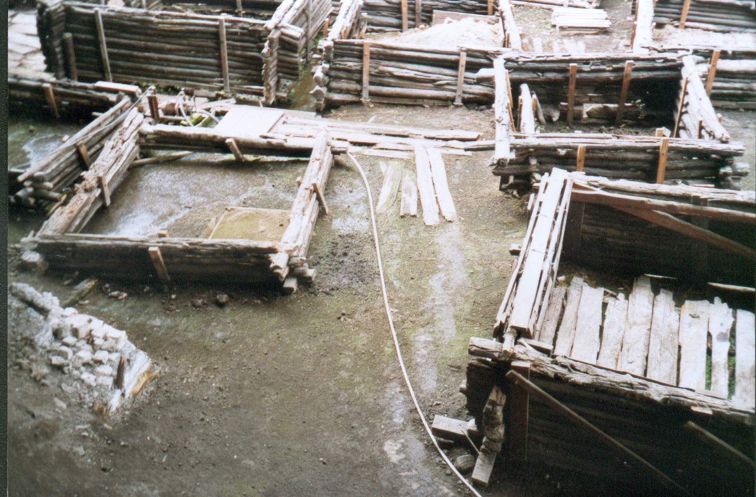 Fundaments of 13th century buildings in the archeological museum Bjarestse in Brest, Belarus.